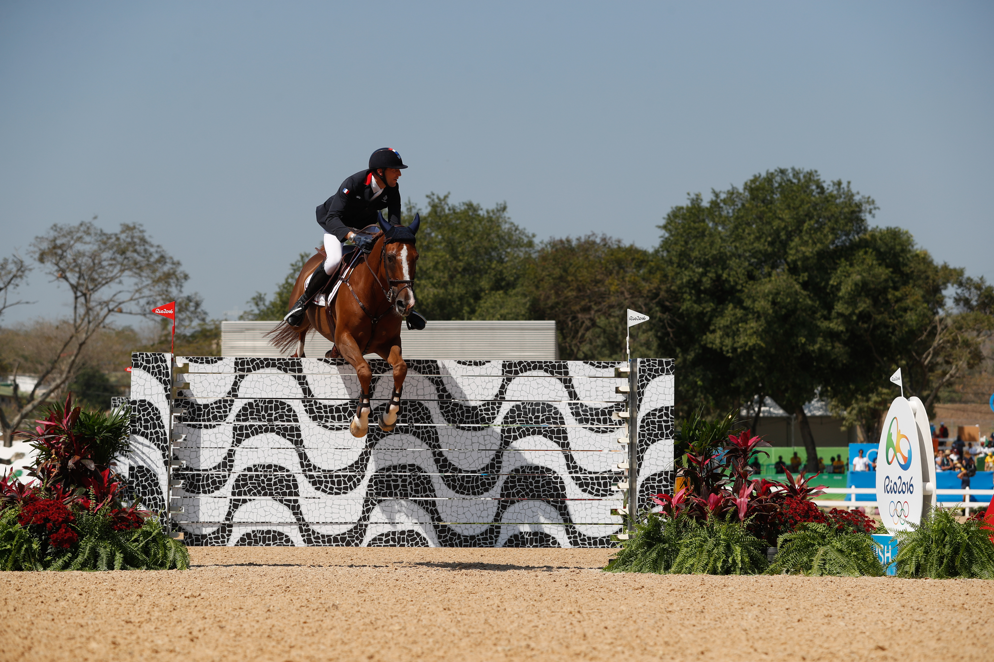 Rio de Janeiro - Cavaleiro francês Kevin Staut na competição de saltos do hipismo por equipes em que ganhou ouro nos Jogos Olímpicos Rio 2016, em Deodoro. ( Fernando Frazão/Agência Brasil)